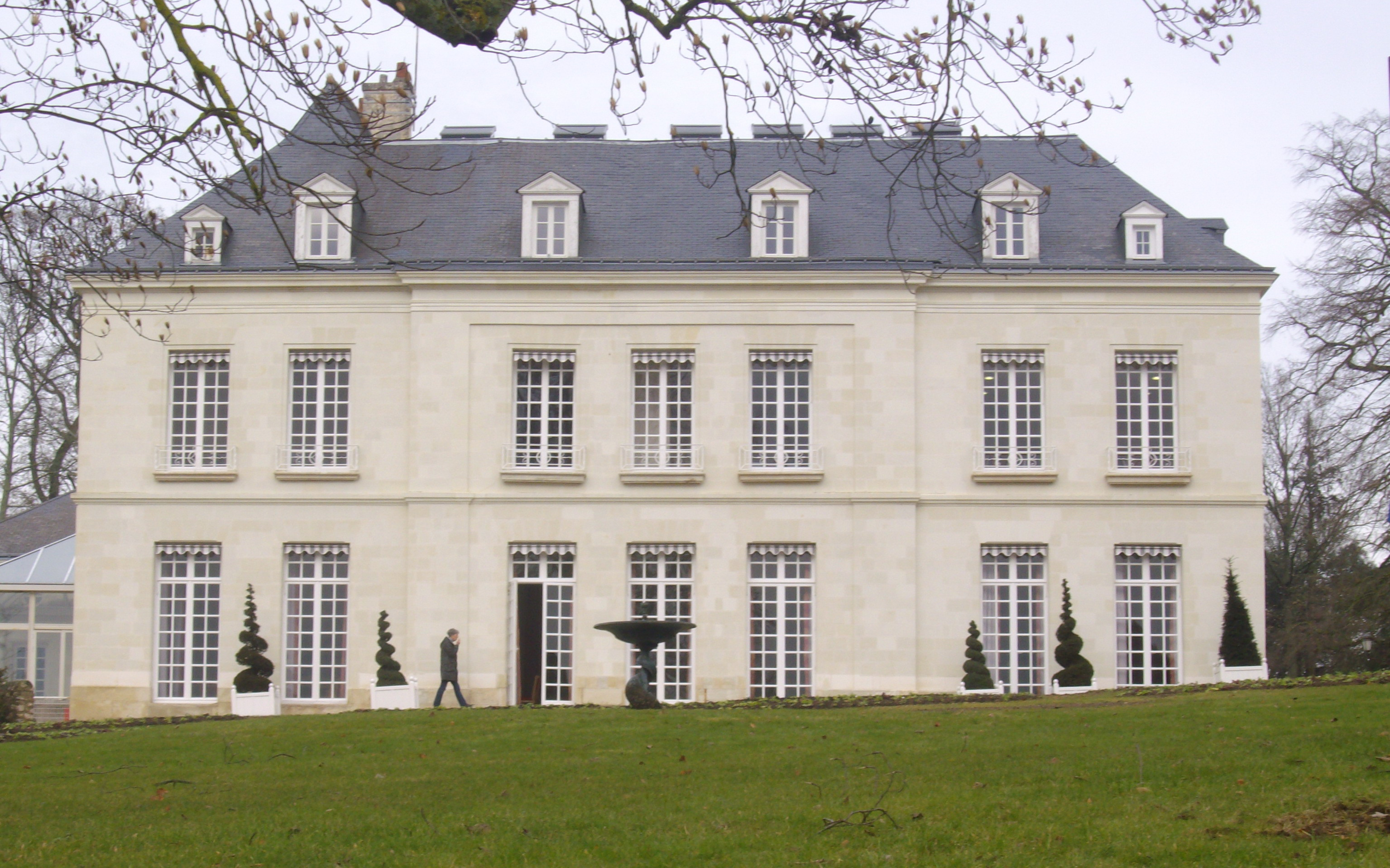 Mairie de Saint-Cyr-sur-Loire (La Perraudière)